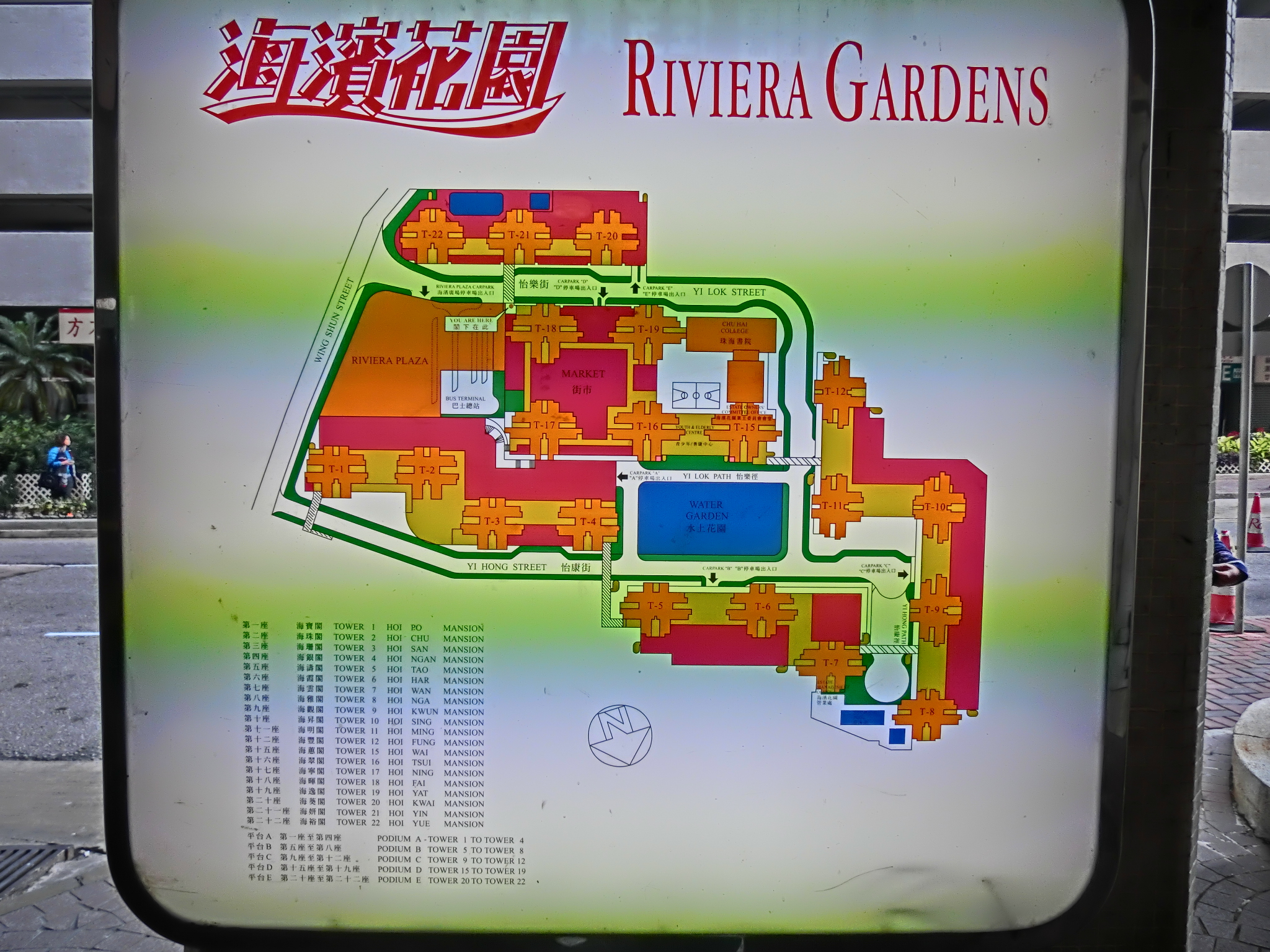 荃灣 海濱花園, Riviera Gardens, Yi Hong Street, Tsuen Wan, Hong Kong